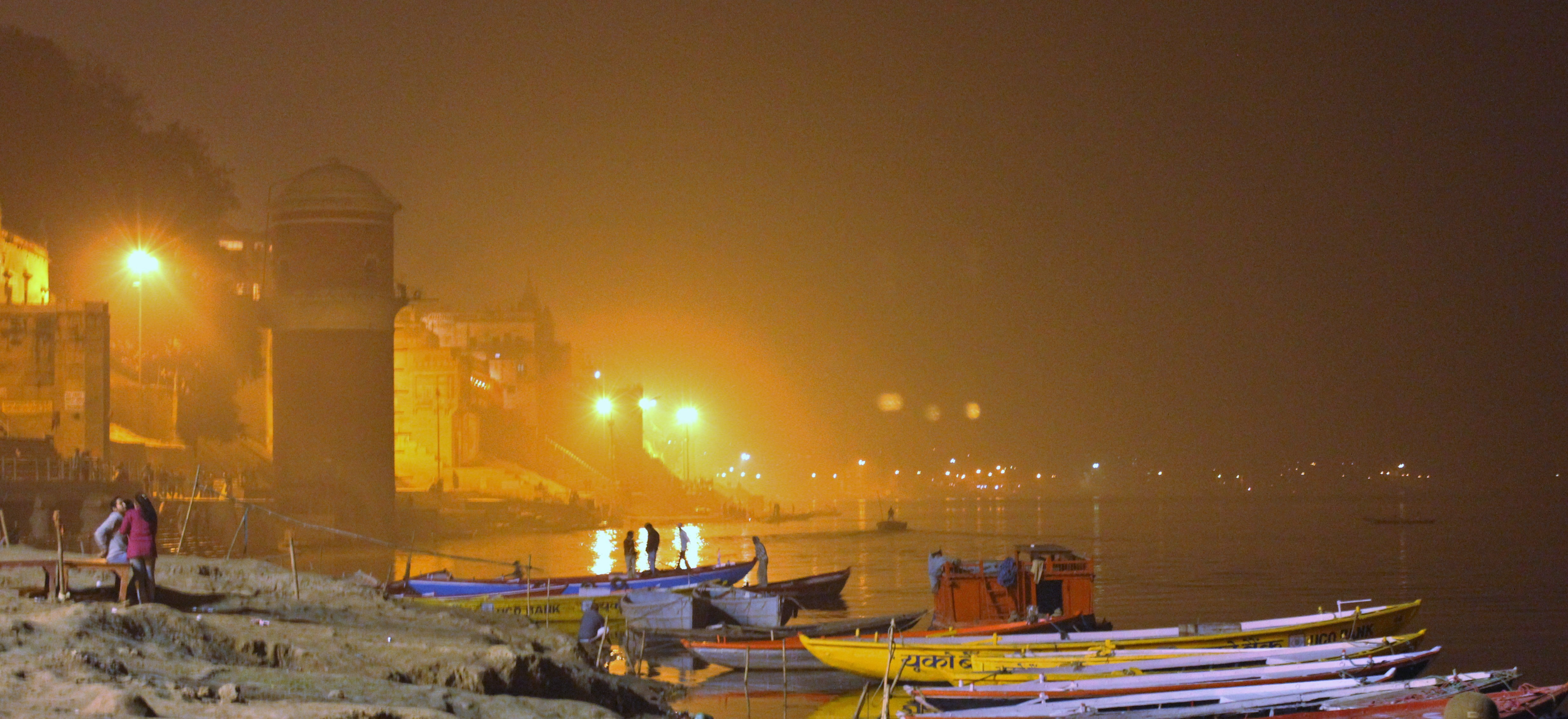 Ganga Ghat in evening. Picture taken from Assi ghat